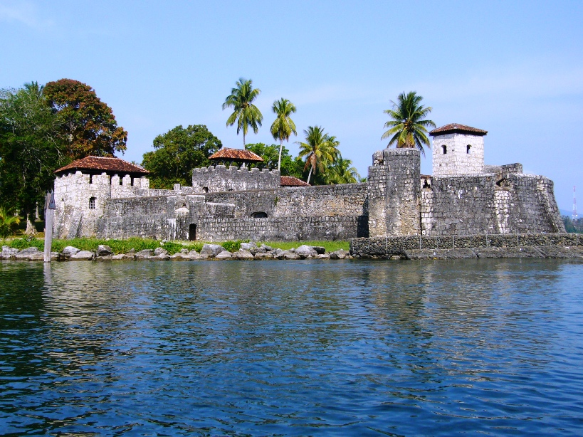 Castillo de San Felipe. An 18th century Spanish fort built on Rio Dulce to guard against English pirates, Rio Dulce.